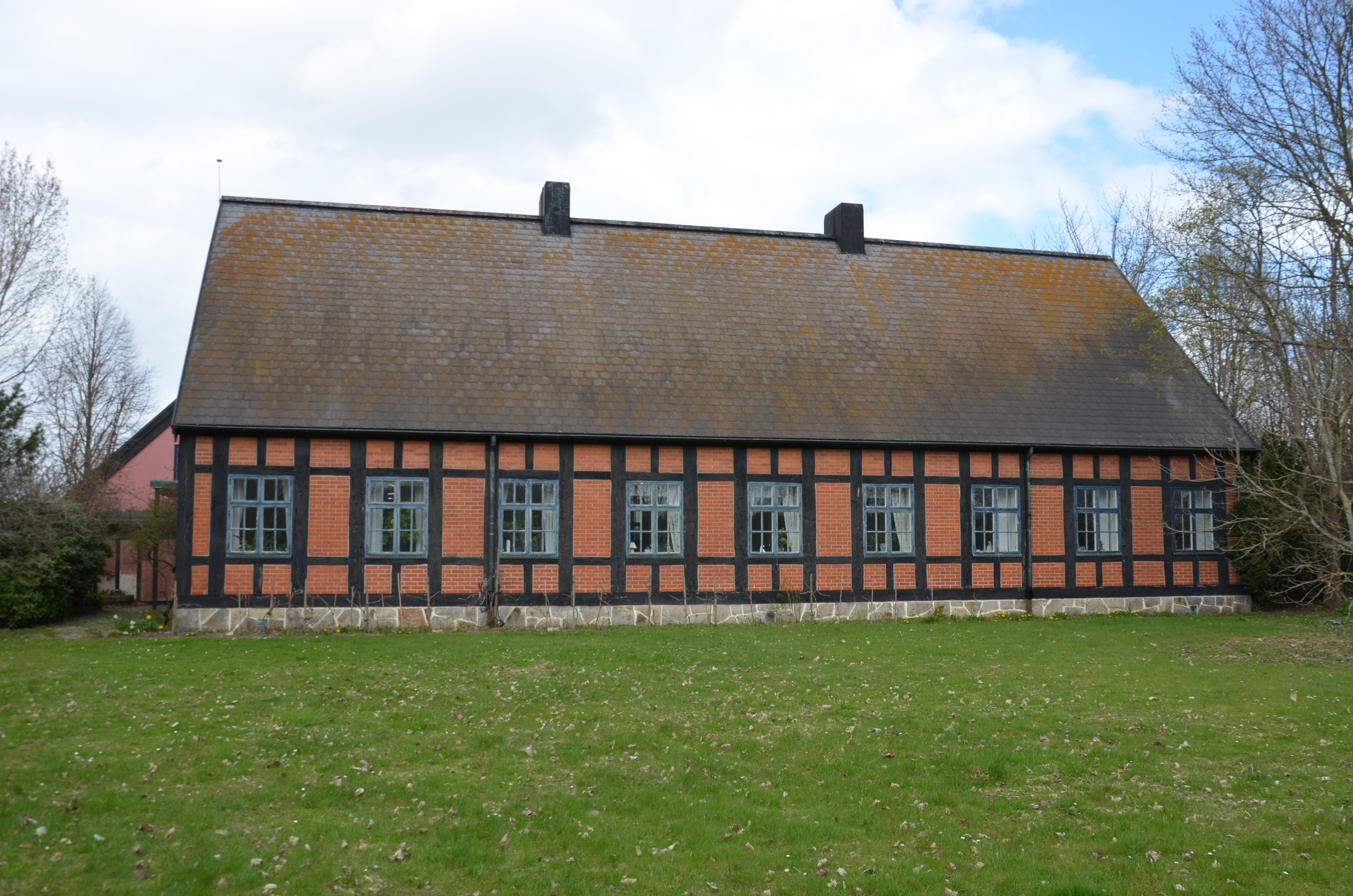 Byggmästargården, numera kallad Solbjersgården, ursprungligen Norbergska gården vid Stora Södergatan i Lund från 1791. Återuppförd efter rivningsbeslut i Östra Torns by utanför Lund på 1960-talet av byggmästaren Harry Karlsson.